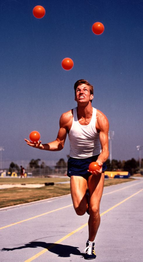 Owen Morse (previously published in the 1989 edition of the Guinness Book of World Records) Contents 1 Summary 2 Free use 3 Licensing 4 Original upload log Summary Two-time Guinness World Record-holder Owen Morse joggling during the 1988 International Jugglers' Association festival. Free use Granted by Owen Morse; proof e-mailed to